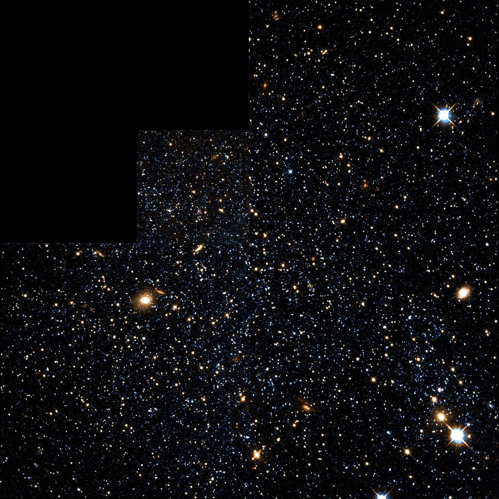 Phoenix Dwarf (PGC 6830) galaxy by Hubble space telescope